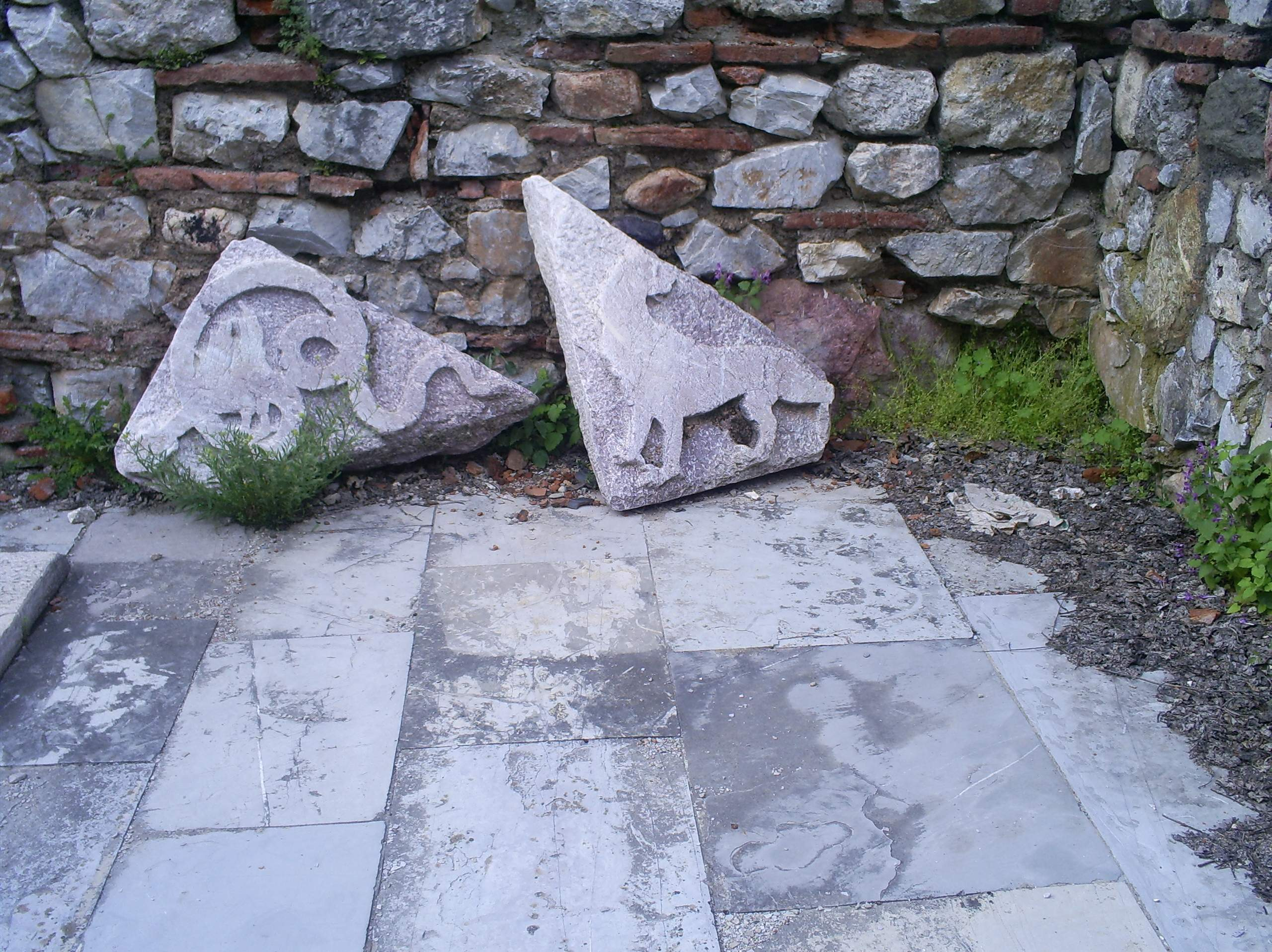 Parts of sculptures in Sveti Arhangeli near Prizren, Serbia.